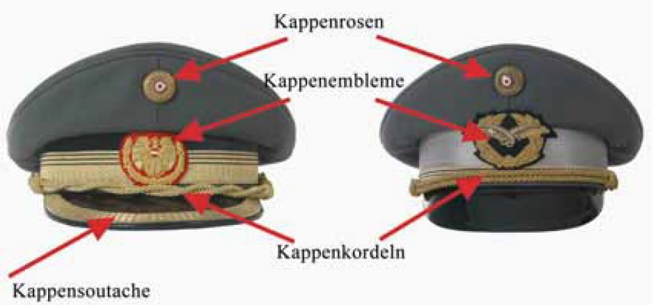 Comparison of "Tellerkappe" (en: peaked cap) and "Fliegertellerkappe" (aviator´s peaked cap) of the Austrian Army.